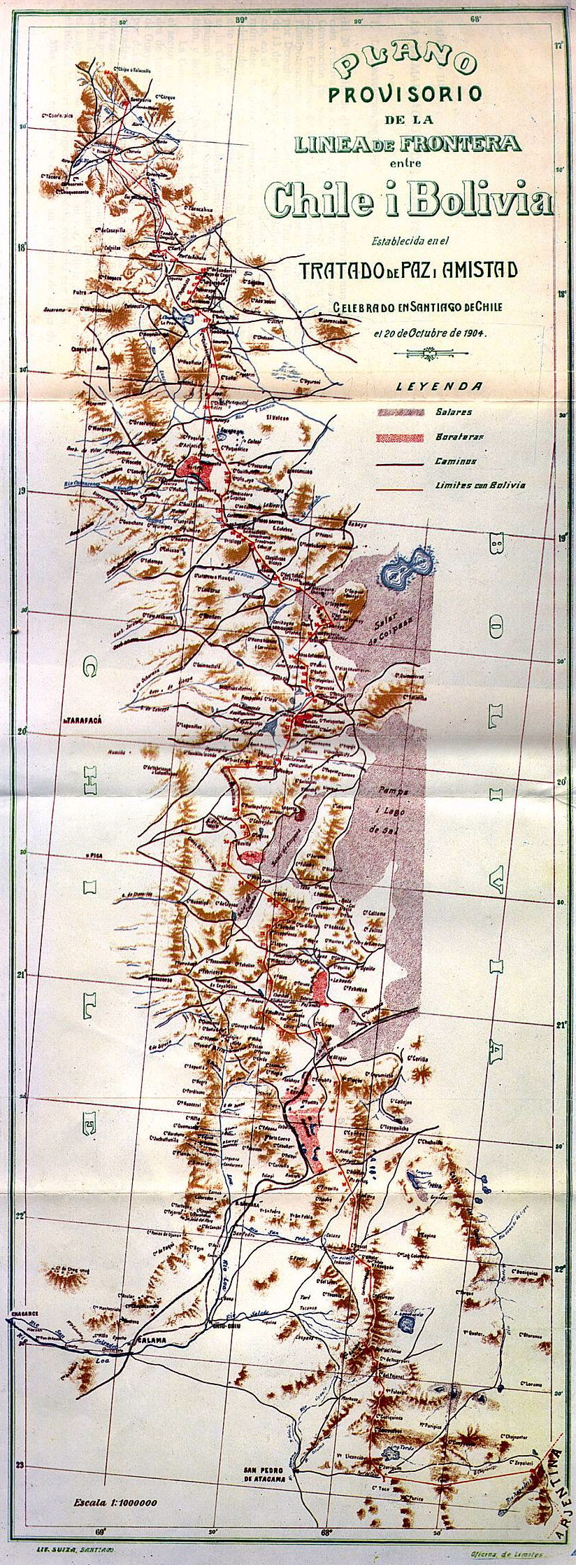 Provisional map with the border demarcation between Chile and Bolivia according to the 1904 peace treaty.